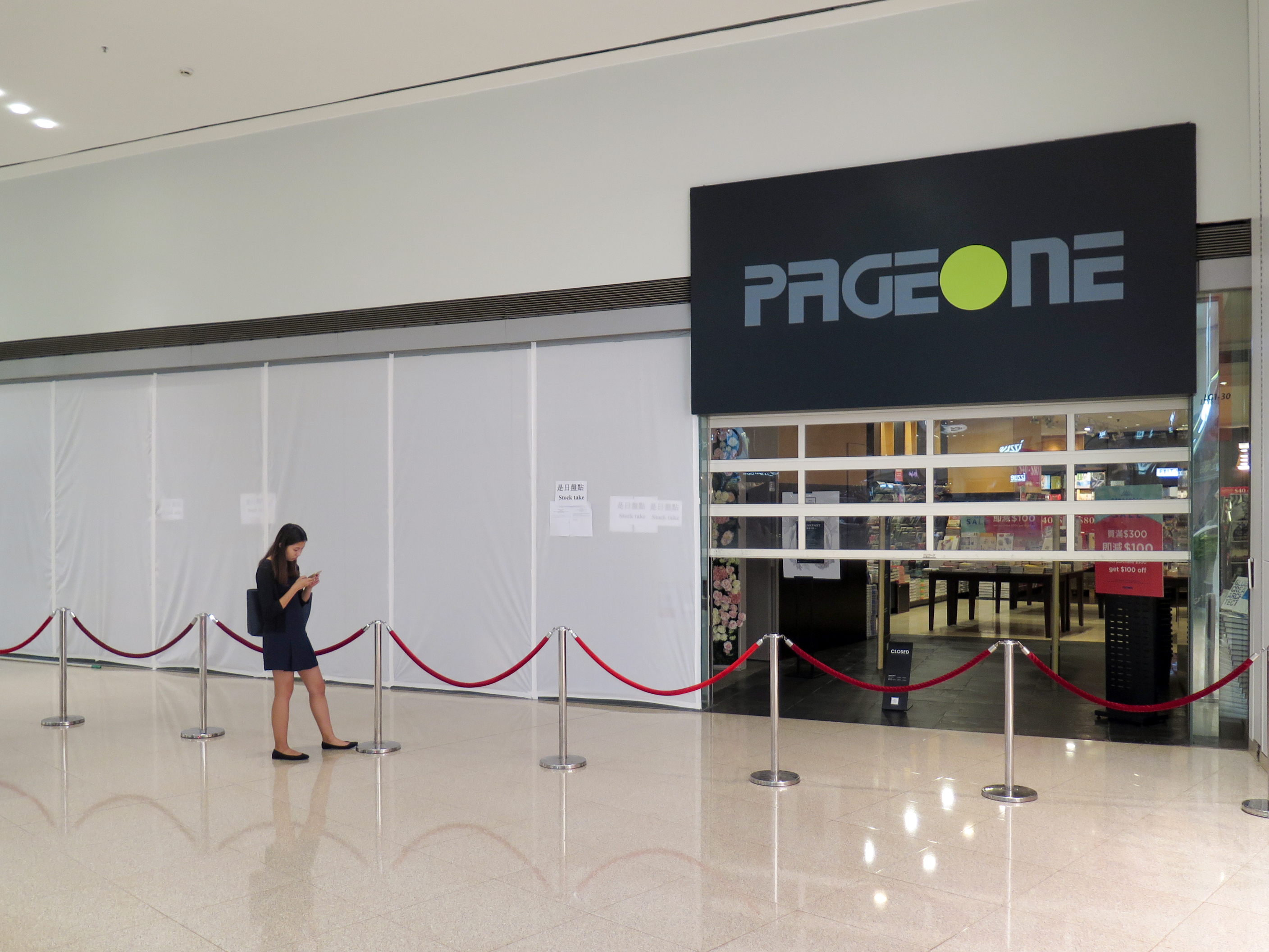 PageOne Festival Walk Closed